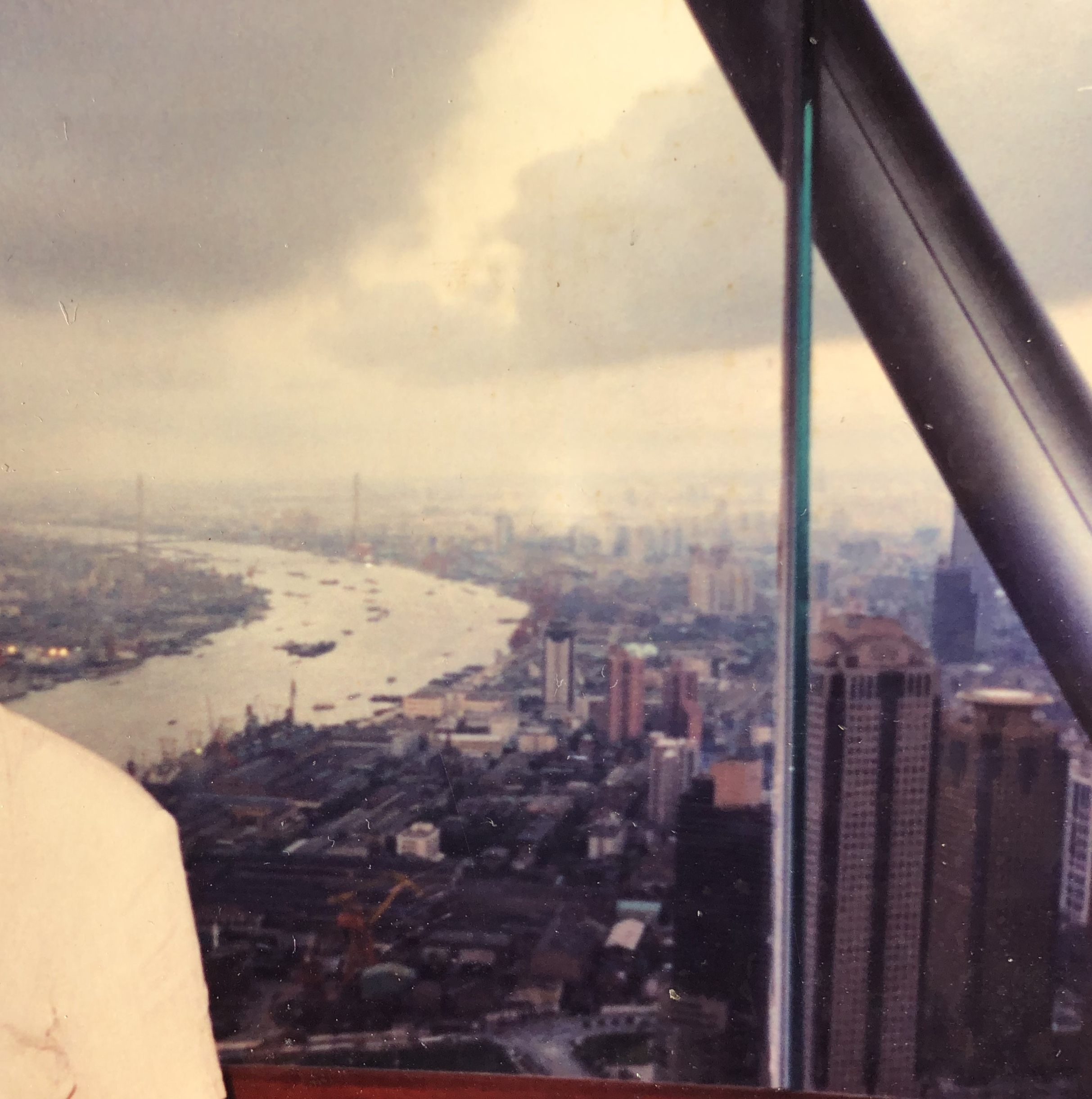 This is a whole view of Lujiazui taken in the Oriental Pearl TV Tower in 2002.